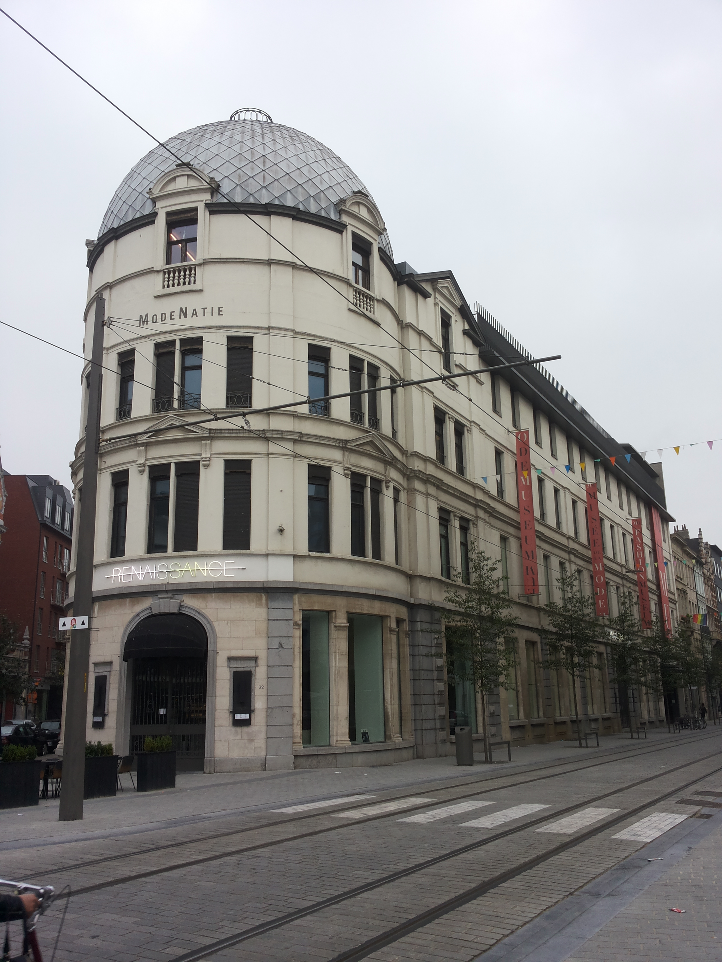 Location of the fashion edit-a-thon at MoMu, 23 September 2013